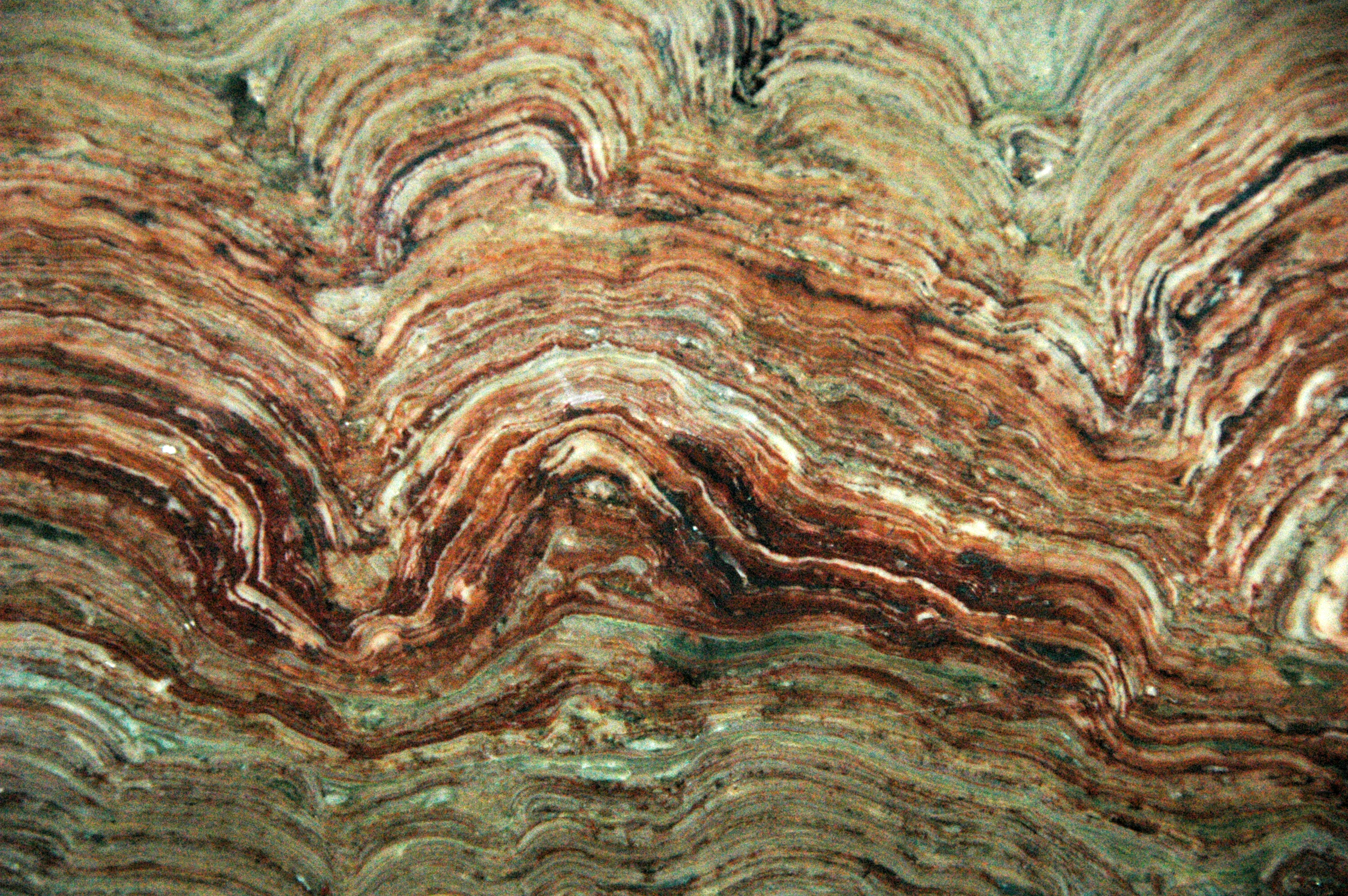 Stromatolites (cut & polished slice) from the Precambrian of Montana (public display, Museum of the Rockies, Bozeman, Montana, USA). Stratigraphy: Snowslip Formation, Belt Supergroup, Mesoproterozoic, ~1.44 Ga. Locality: Glacier National Park, northwestern Montana, USA. Stromatolites are large, layered structures built up by mats of cyanobacteria. Stromatolites vary in appearance, ranging from slightly wrinkled horizontal laminations in sedimentary rocks to low mounds to prominent mounds to columnar structures and other forms. Stromatolites are most common in the Proterozoic fossil record. They are scarce today, but famous modern examples occur at Shark Bay, Western Australia.